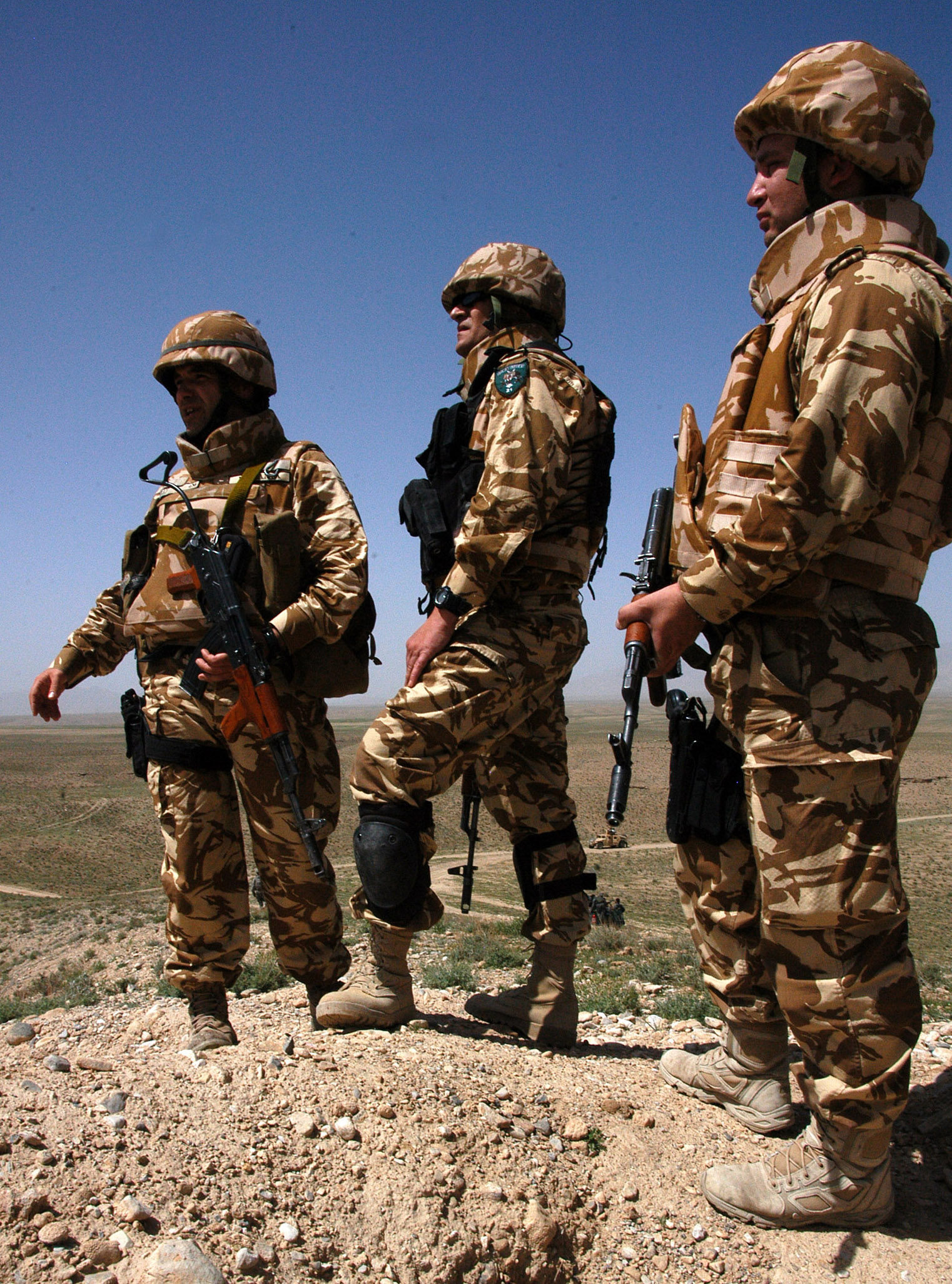 Romanian officers from the 21st Mountain Division discuss the site survey for a location for the soon-to-be-founded Forward Operating Base (FOB) Mescall, Afghanistan, March 25, 2009, near FOB Lagman, Afghanistan.